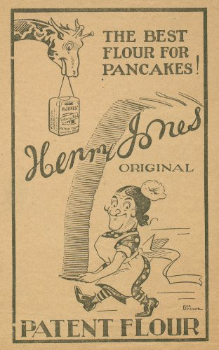 Advertisement for Henry Jones’ self raising flour which was patented in 1845